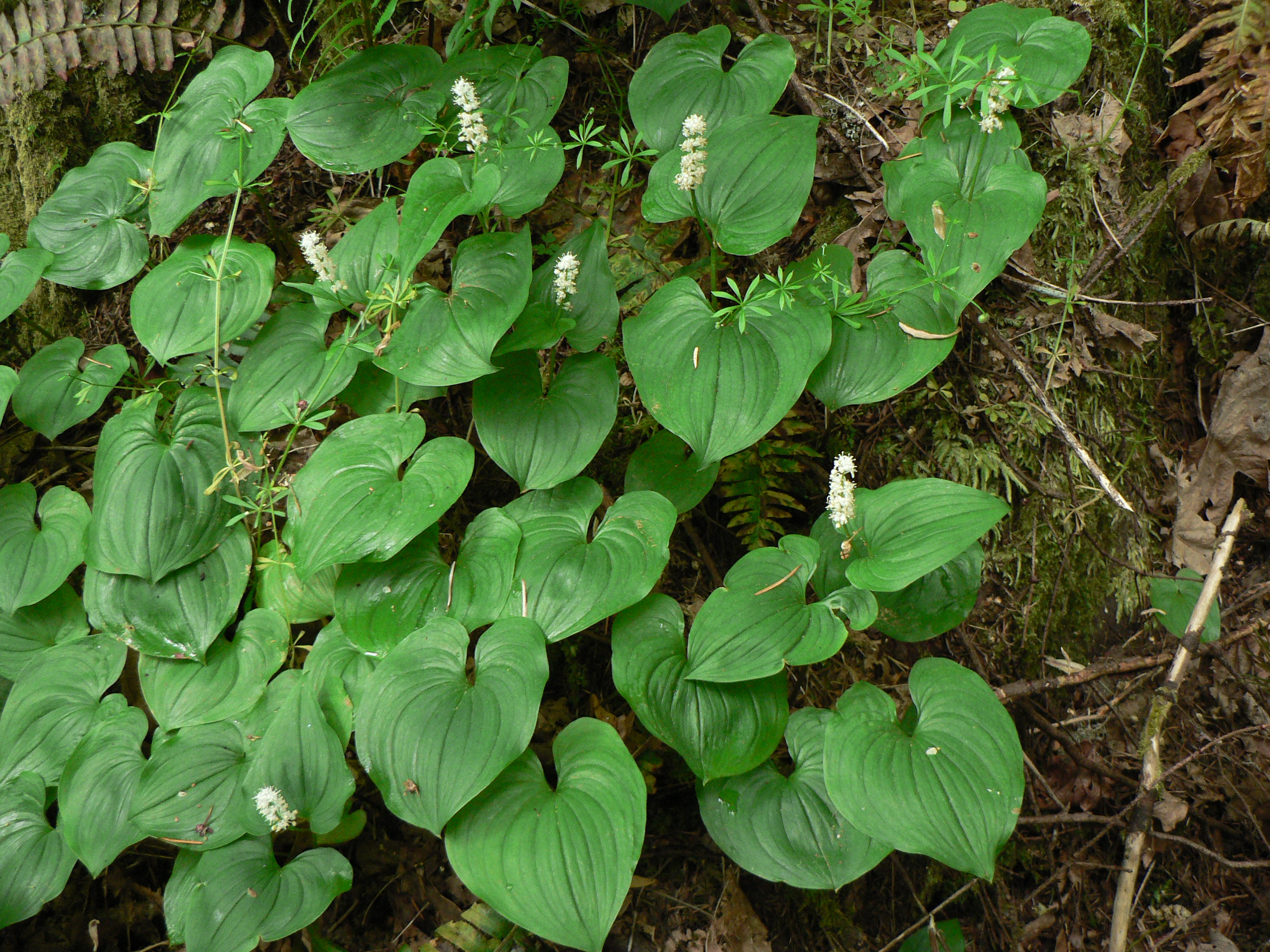 Snakeberry, Two-leaved Solomon's Seal or Wild Lily of the Valley